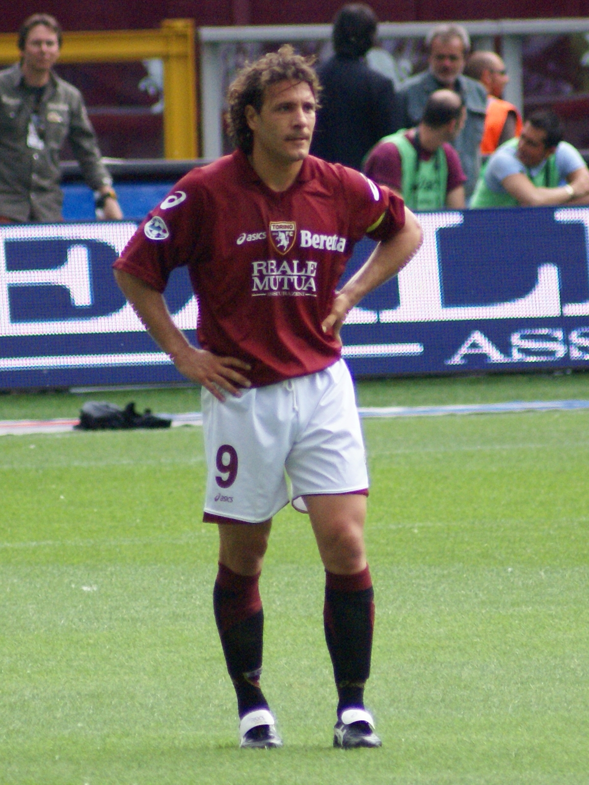 Italian Football Player (soccer) Roberto Muzzi is a striker; he has played for Torino FC on season 2005/06 and 2006/07.